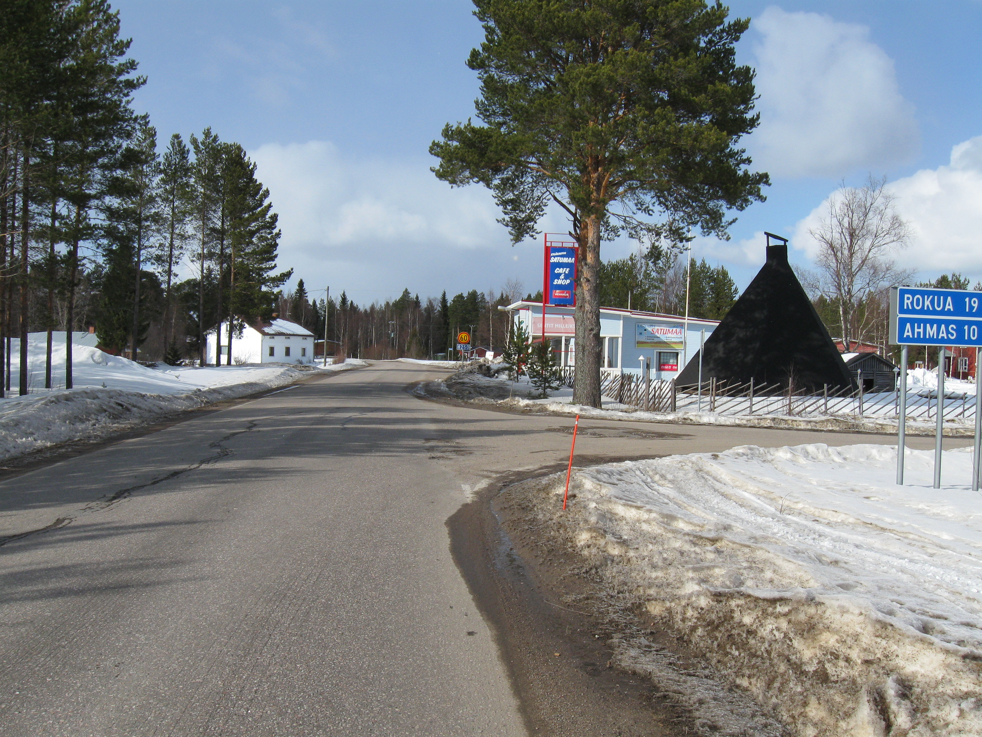 Kylmälänkylä village in Muhos, at the crossing of the connecting roads 8250 and 8293, seen towards Muhos (North-West).